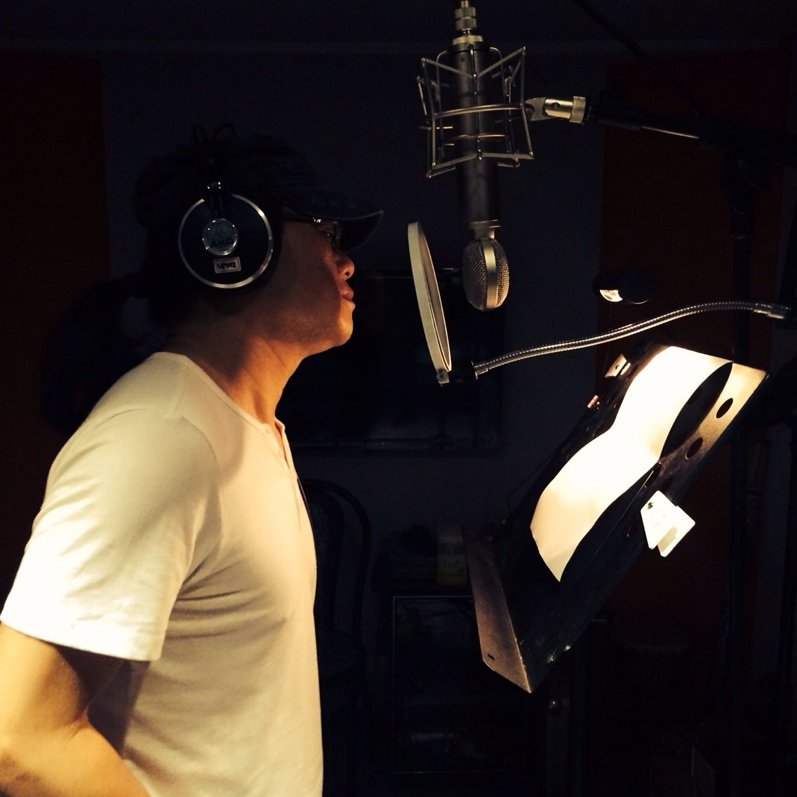 Ardor Huang